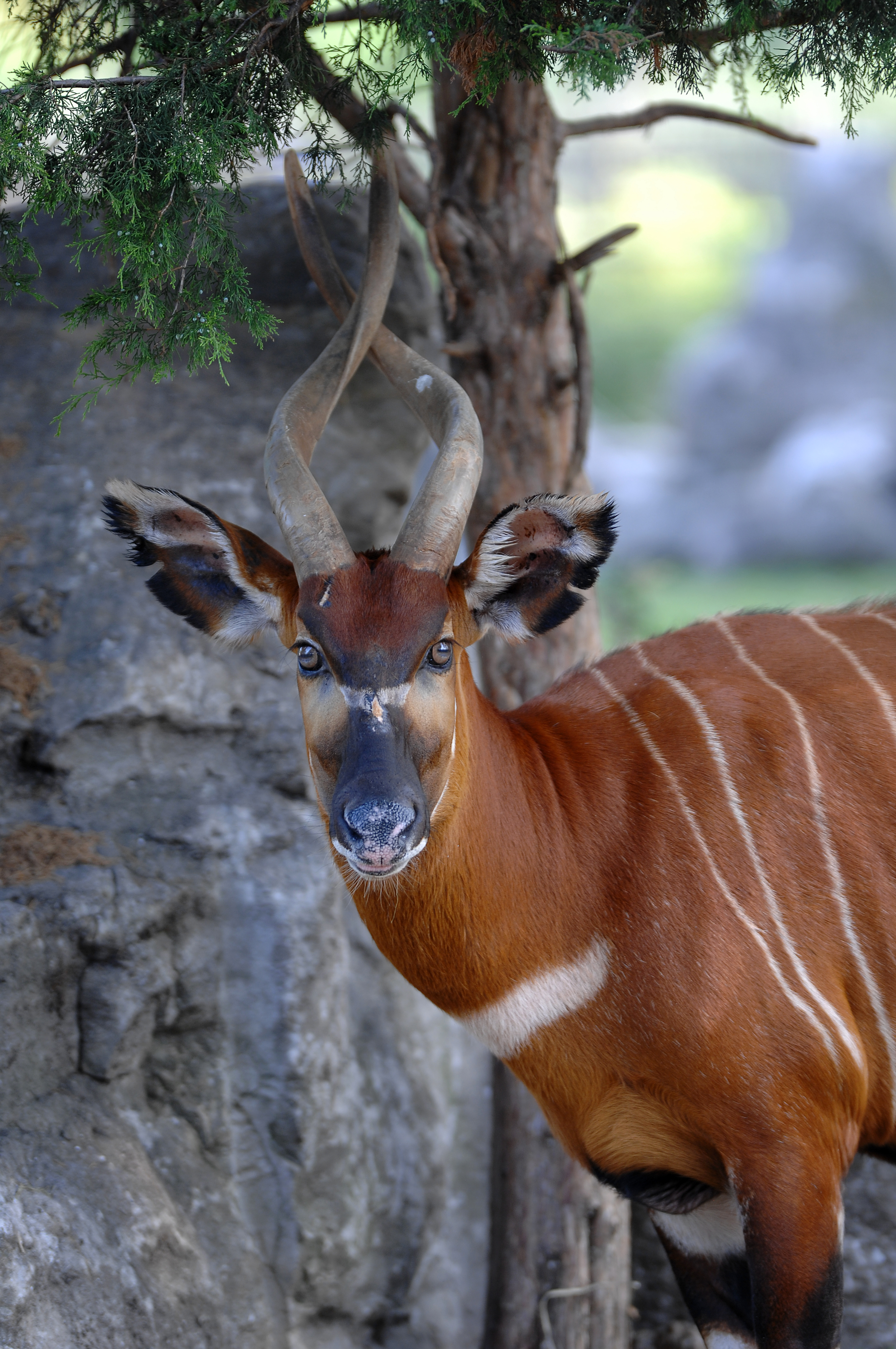 Male bongo at the Louisville, Kentucky zoo.